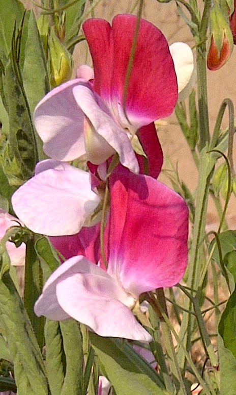 Sweet Pea